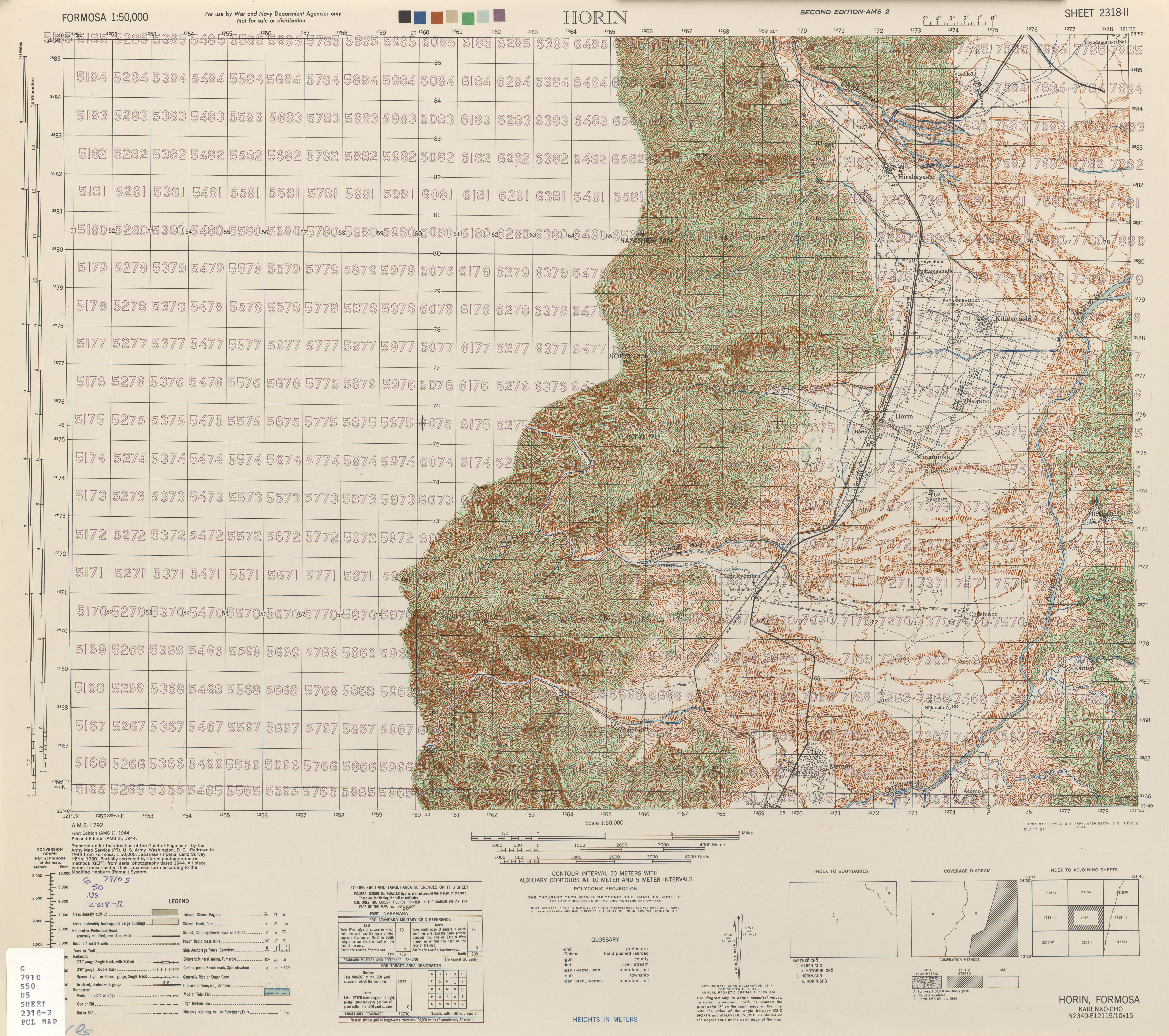 Map from Formosa (Taiwan) 1:50,000 AMS Series L792